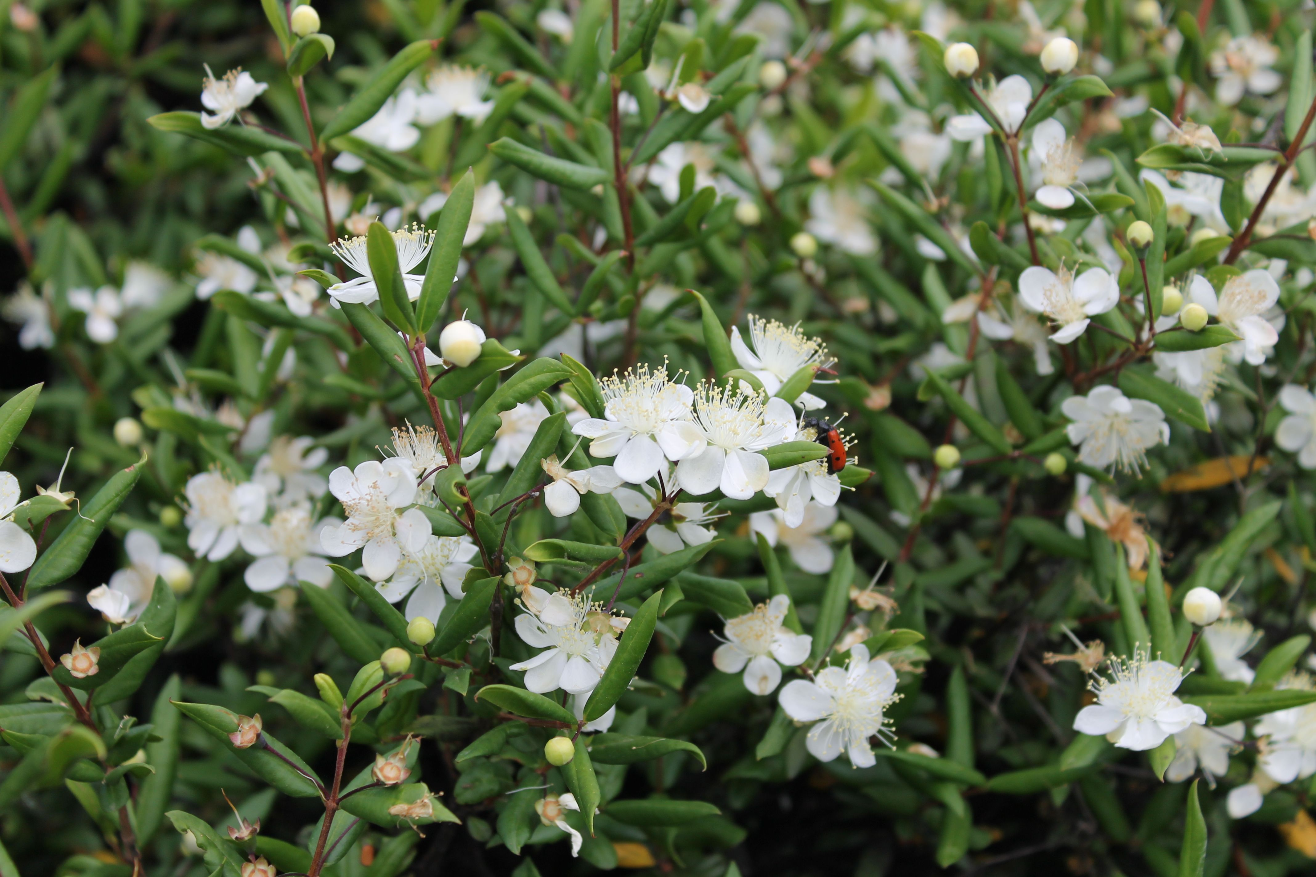 Plant (Myrtus communis), Spain, northeastern coast, Parc Cap de Creus